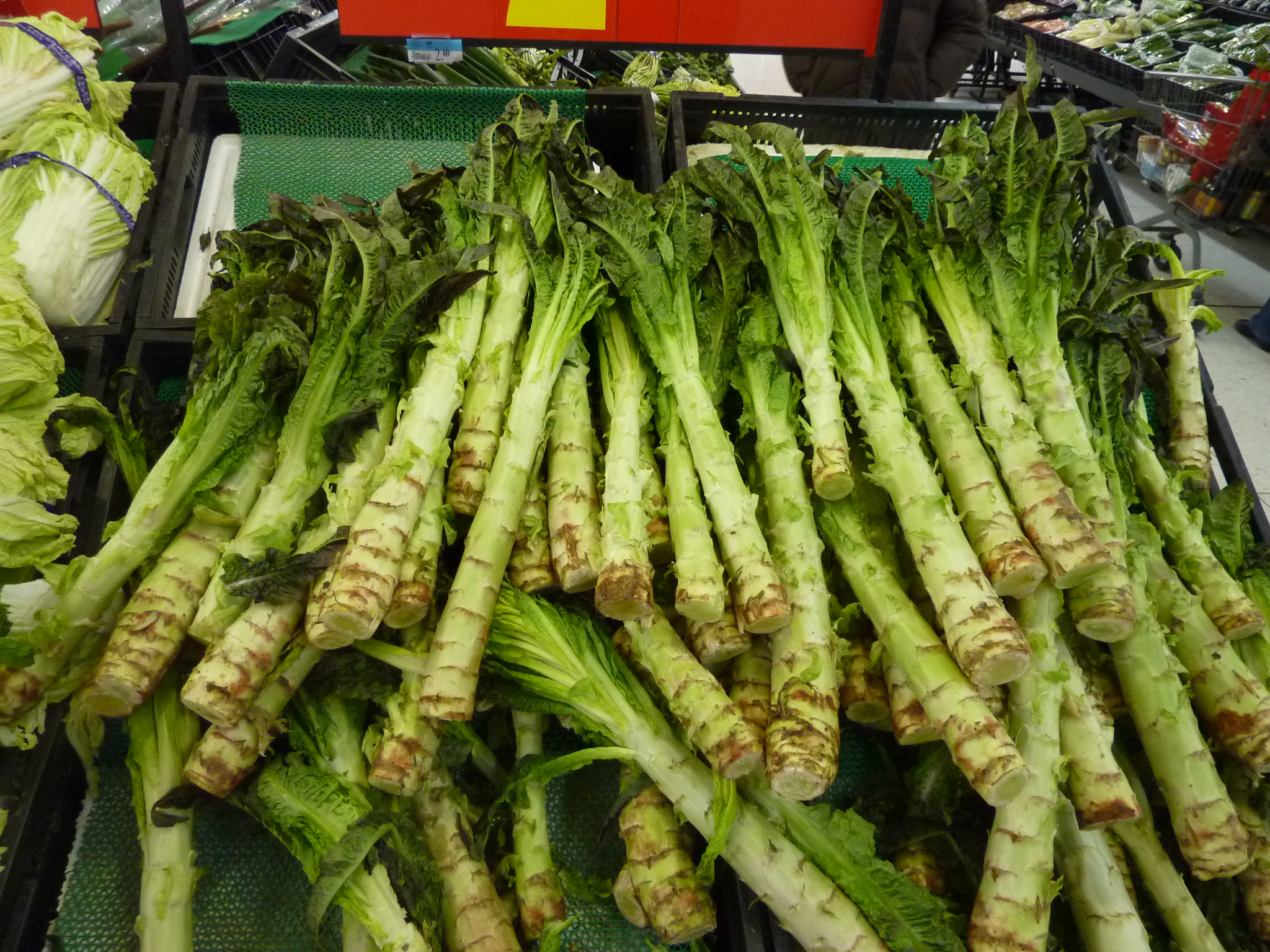 Woju, a lettuce-like vegetable whose thick stem people stir-fry, sold in a Yangzhou supermarket